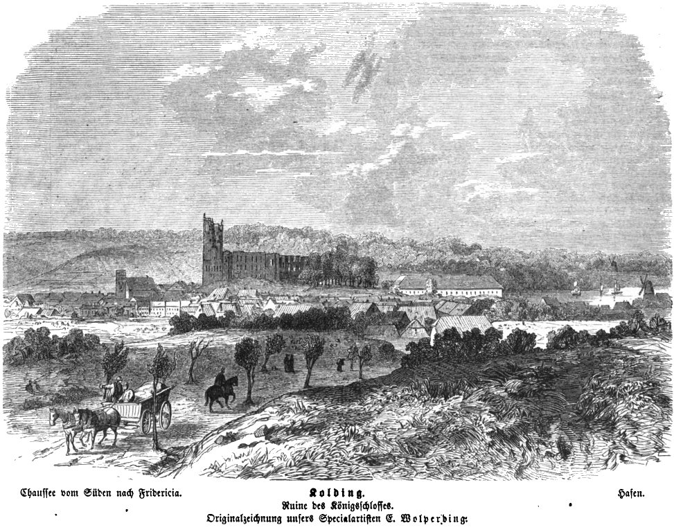 caption: "Chaussee vom Süden nach Fridericia. Kolding. Hafen.Ruine des Königsschlosses.Originalzeichnung unsers Specialartisten E. Wolperding."